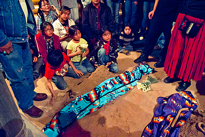 Residents of Fort Defiance, Arizona play a round of Navajo Shoegame at Tsehootsooi Medical Center's Navajo culture night.